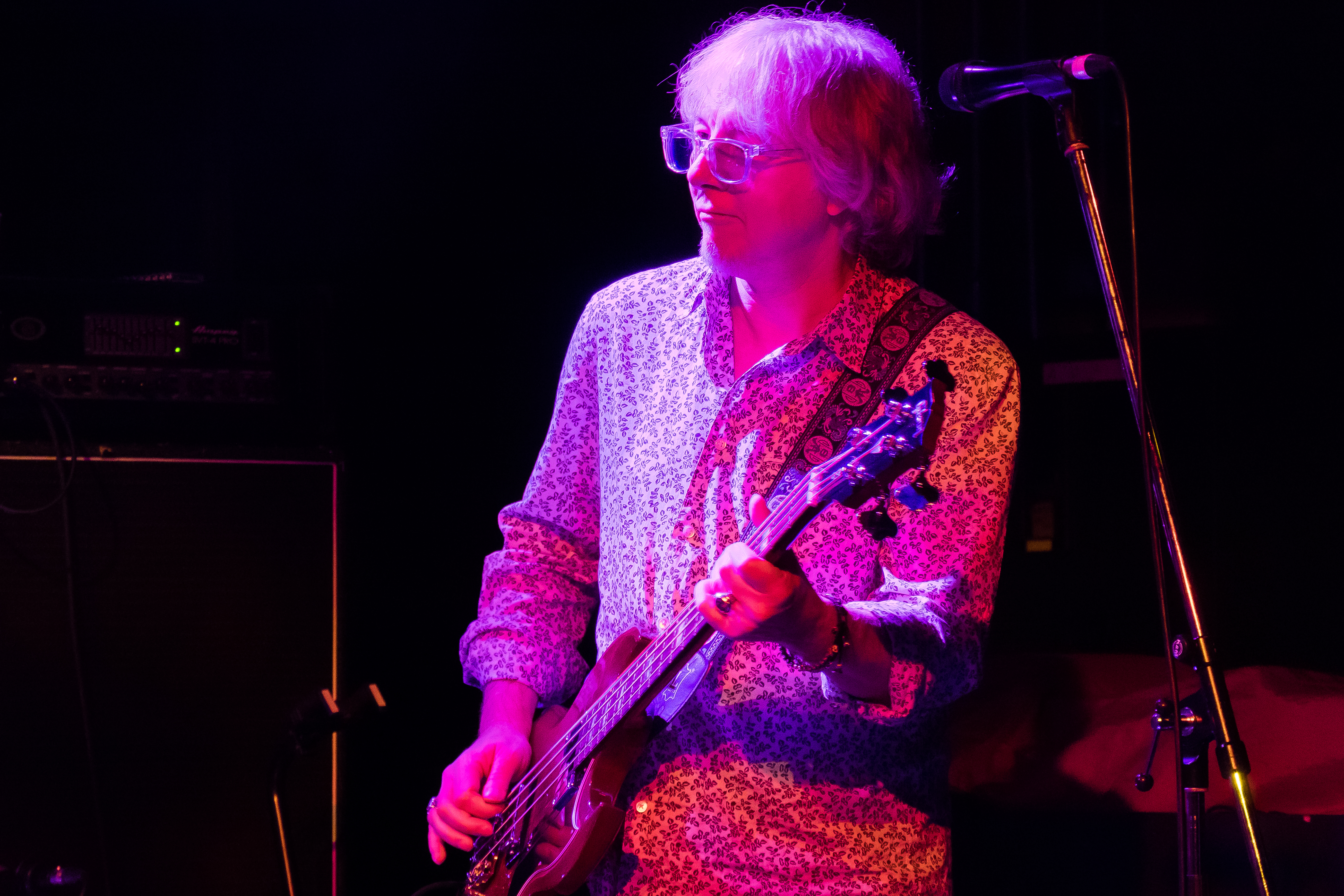 Mike Mills performing with Steve Wynn, Peter Buck, Scott McCaughey, Linda Pitmon & Kurt Bloch - WWW, Tokyo 10 Feb 2017